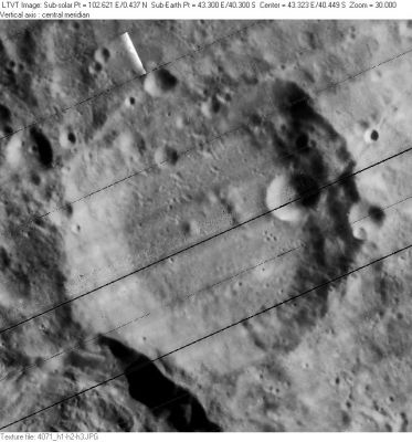 LO-IV-071H The 14-km crater at the foot of the eastern wall is Metius B. 8-km Metius F (on the rim by the white streak at 11 o-clock) and 9-km Metius G (on the rim at 3 o’clock) are also named, as is 6-km Metius E (at the foot of the north wall, directly below Metius F).